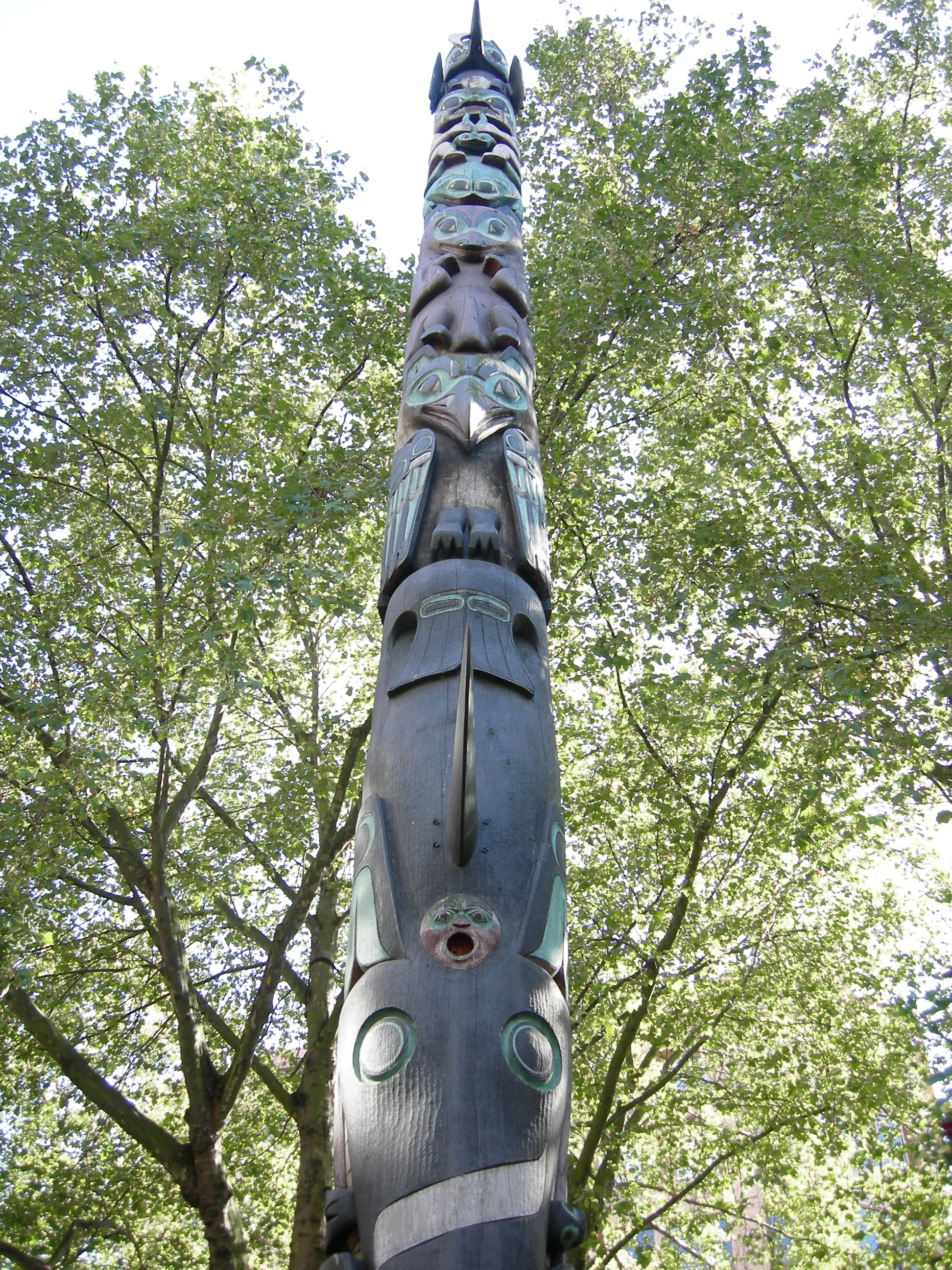 Detail of totem pole, Pioneer Square, Seattle, Washington, USA. Listed, along with the Pioneer Building and Iron Pergola, on the National Register of Historic Places, ID #77001340. There is also a broader inclusion for the Pioneer Square - Skid Row Historical District. This is a 1930s replica of the original Pioneer Square totem pole, which was damaged by arson. It is carved by descendants of the original carvers. [1]